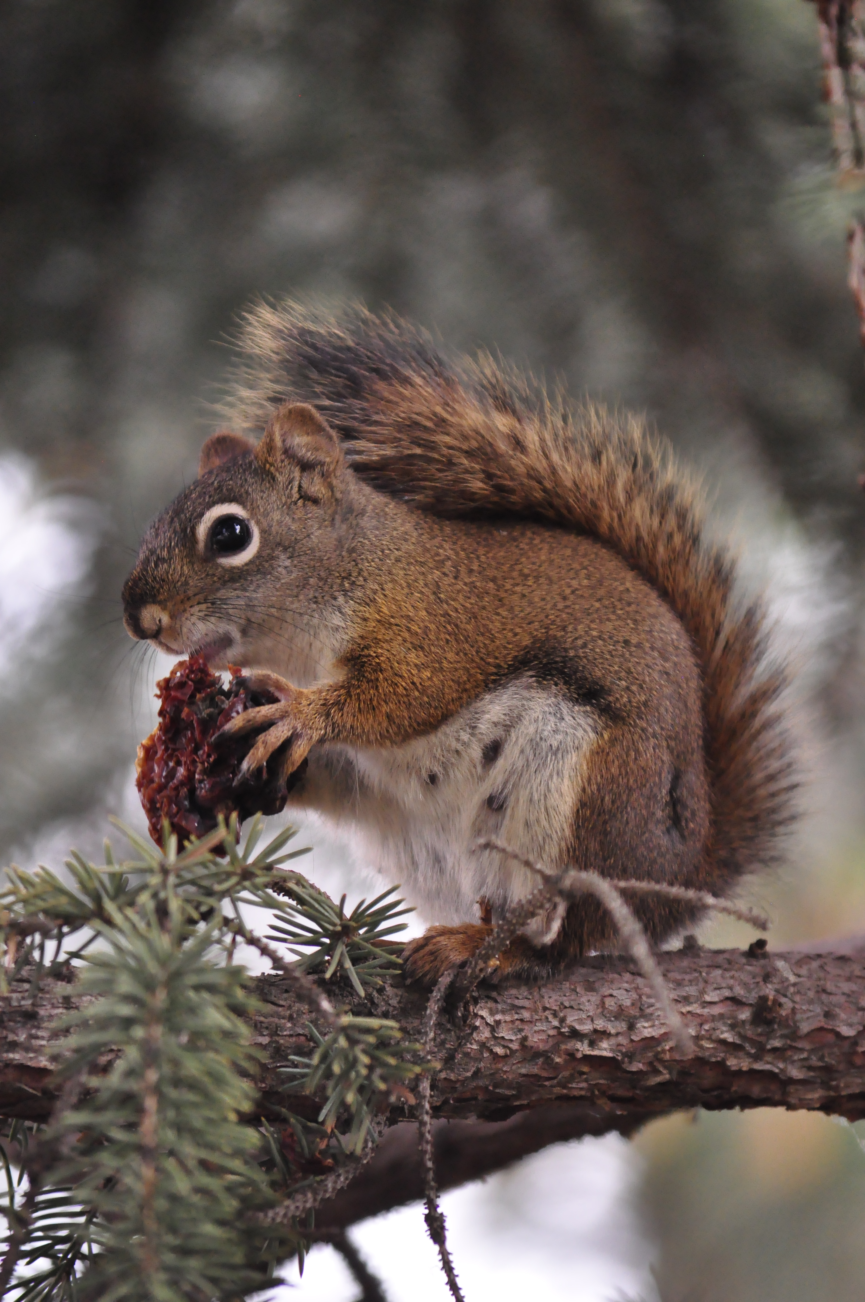 American red squirrel eating a nut. Photographed in Edmonton, Alberta, Canada, June 13, 2013.